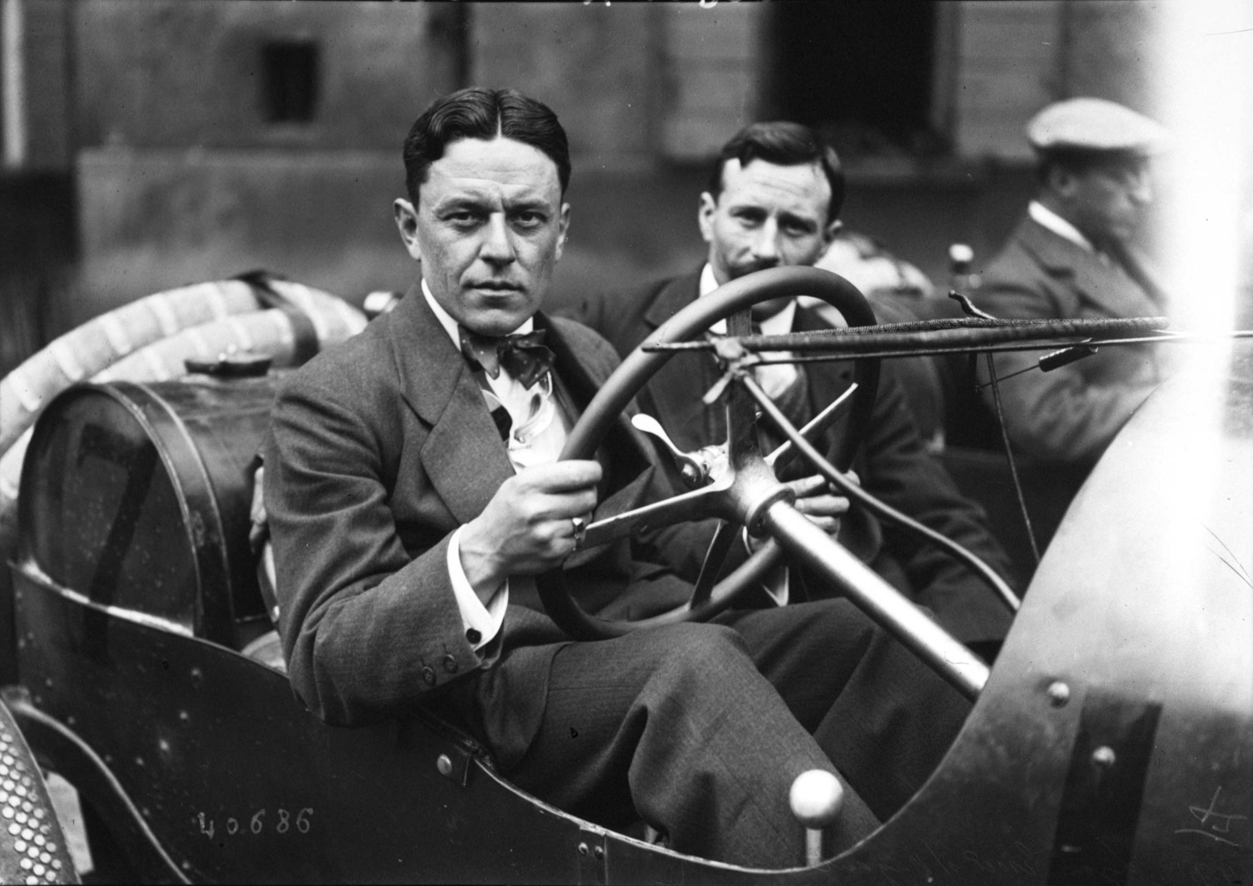 Dragutin Esser at the 1914 French Grand Prix